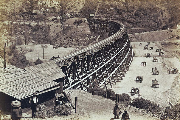 Trestle on Central Pacific Railroad, by Carleton E. Watkins. Negative, 1868-1870; print, about 1880 Albumen print 8 1/16 x 12 3/8 in.